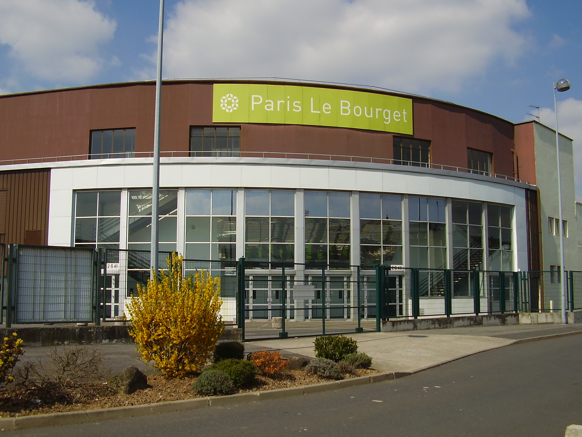 Exterior of Paris Le Bourget exhibition centre